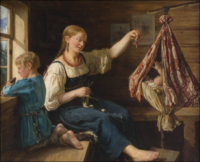 Lullaby